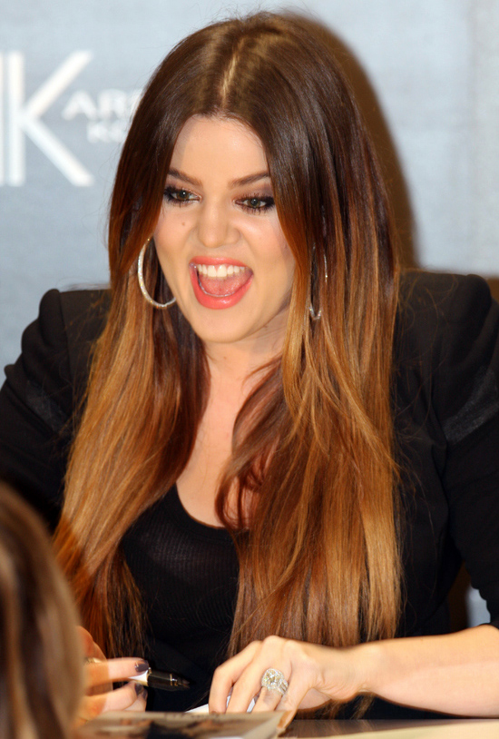 Khloé Kardashian Get David Jones Tills Ringing, Chaos 2011.